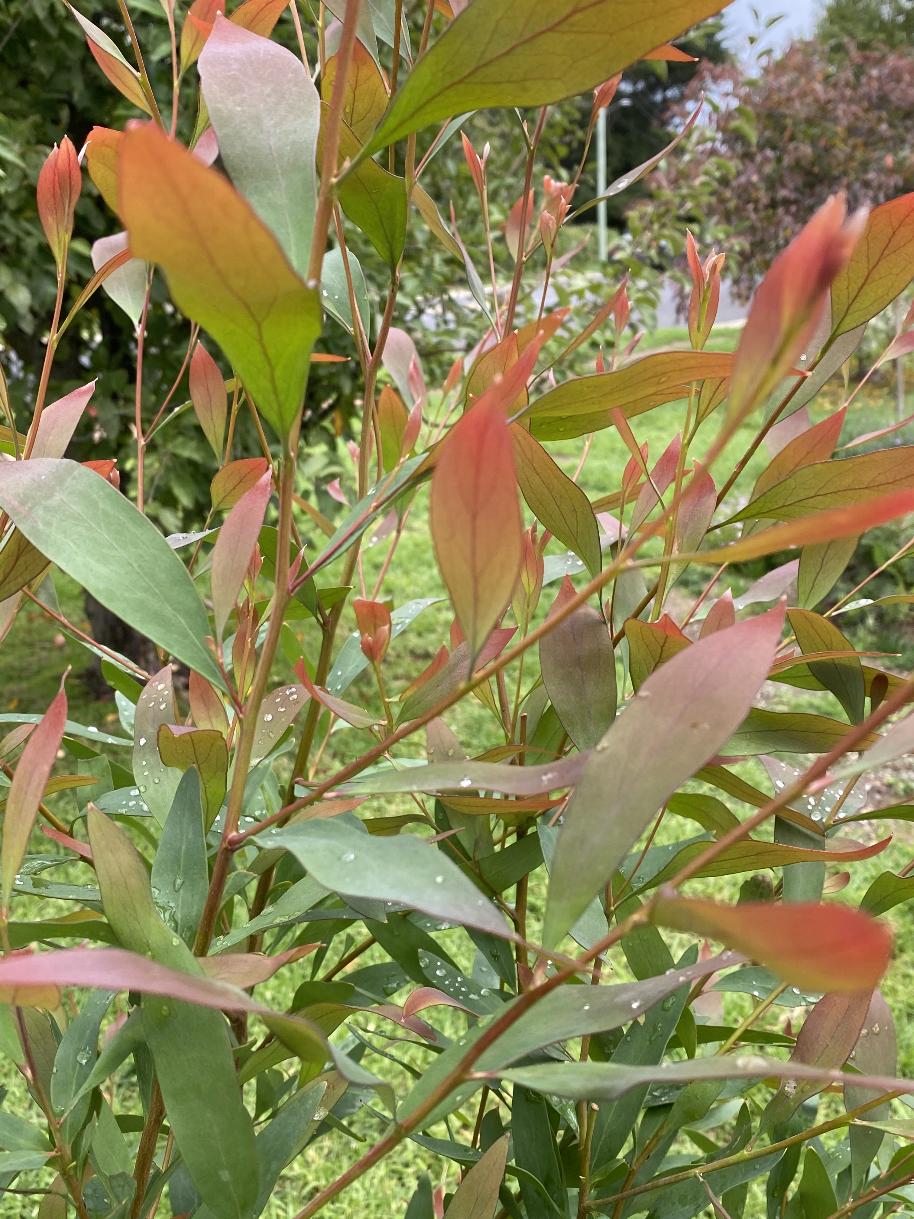 Hakea salicifolia leaves new growth, Bowral